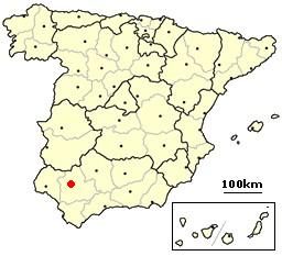 Location of Sevilla in Spain.